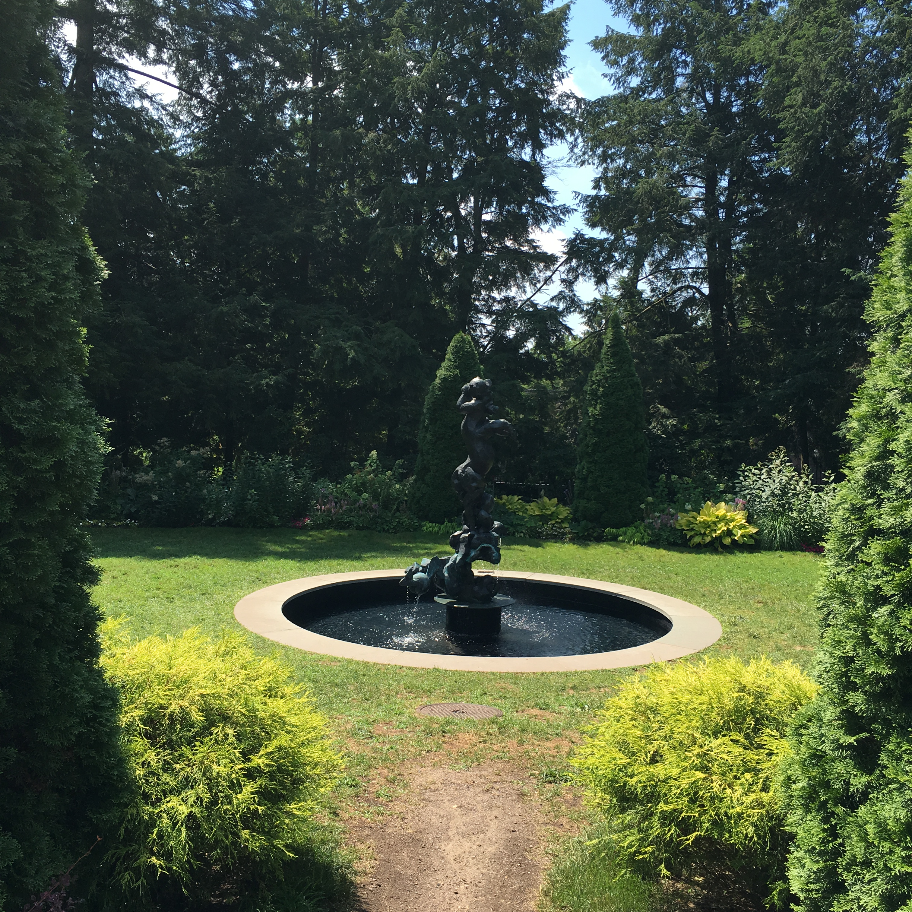 A fountain at Prospect Gardens, located at Princeton University